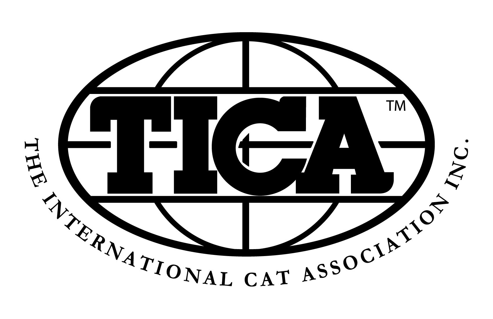 Current Logo for the International Cat Association (TICA)